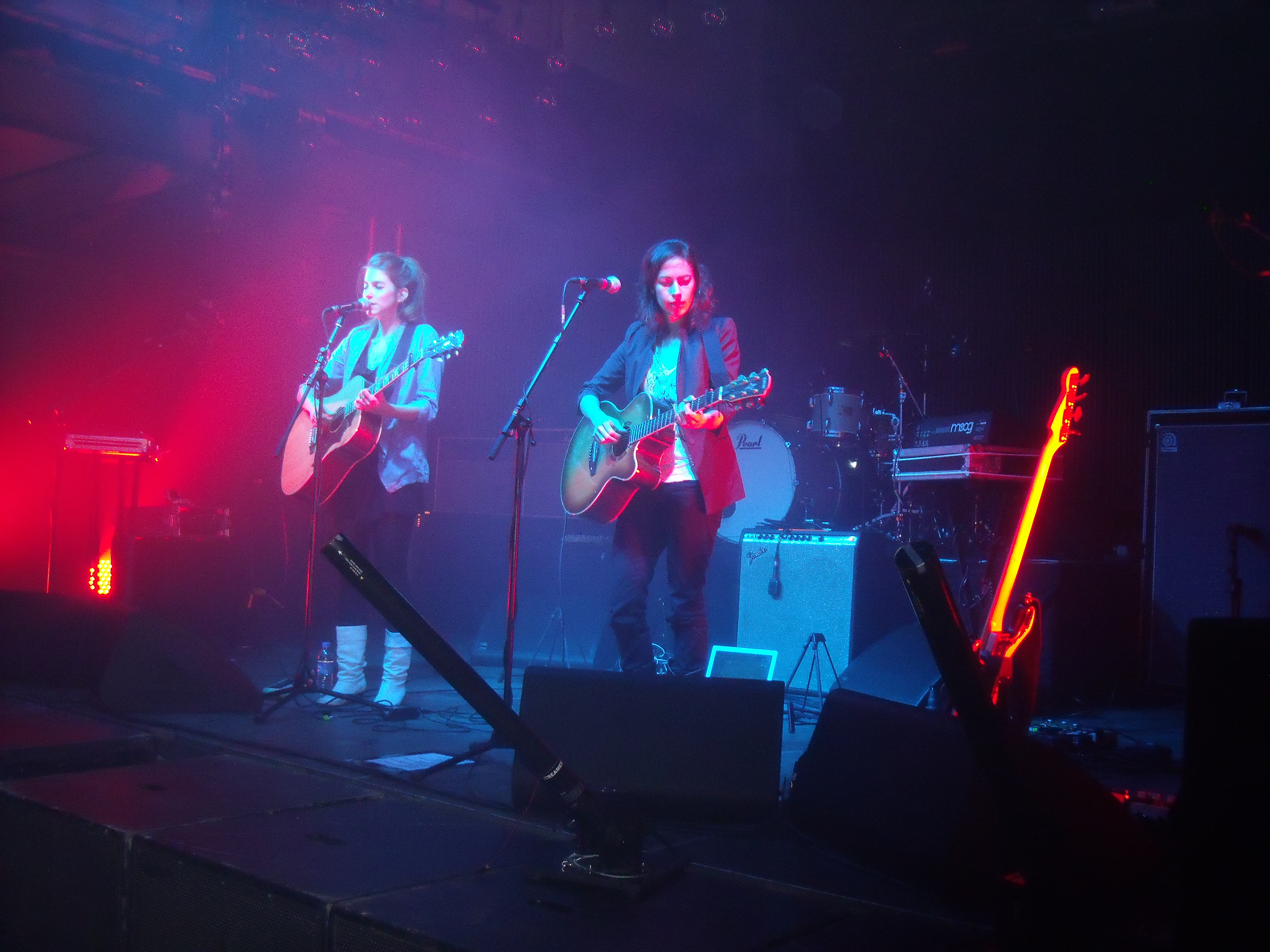 Boy, German/Swiss music duo, at Werk II, Leipzig, Germany